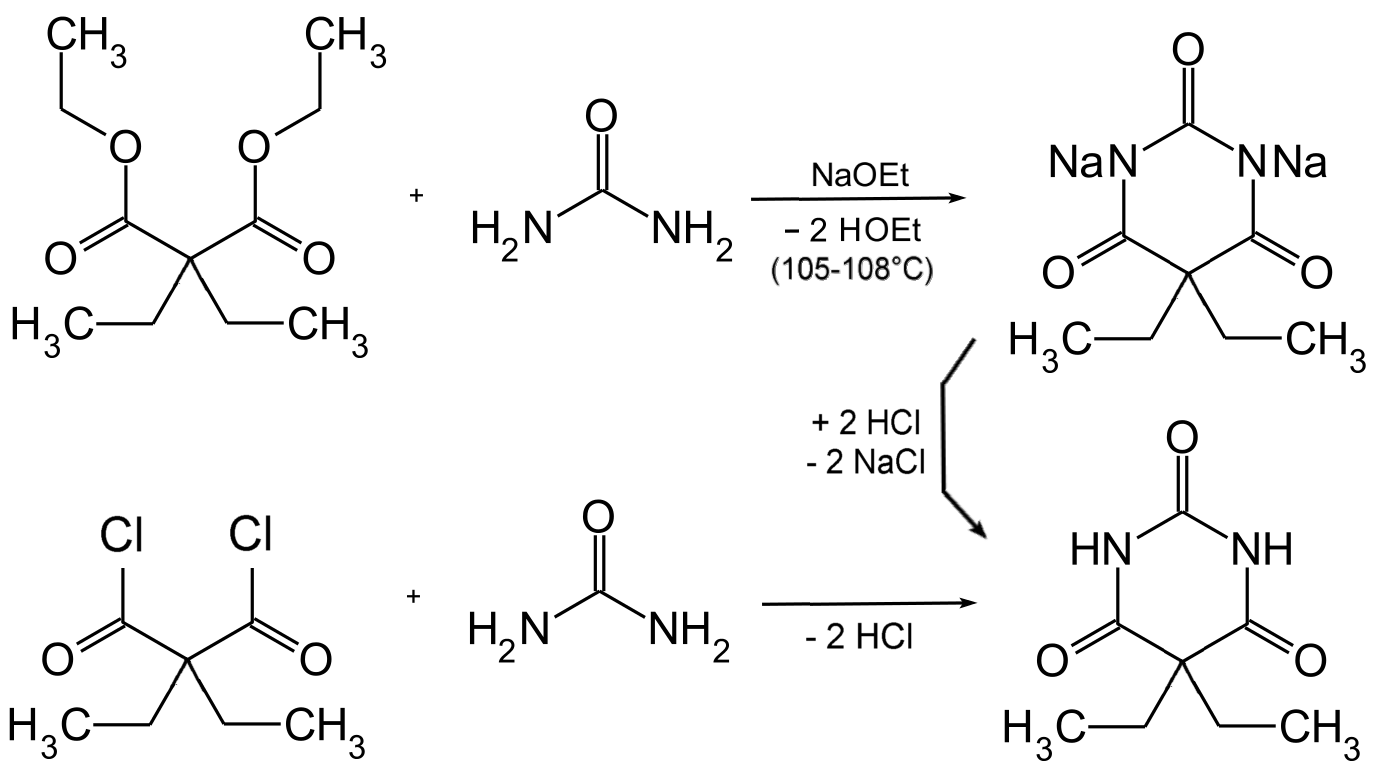 Synthesis of Barbital